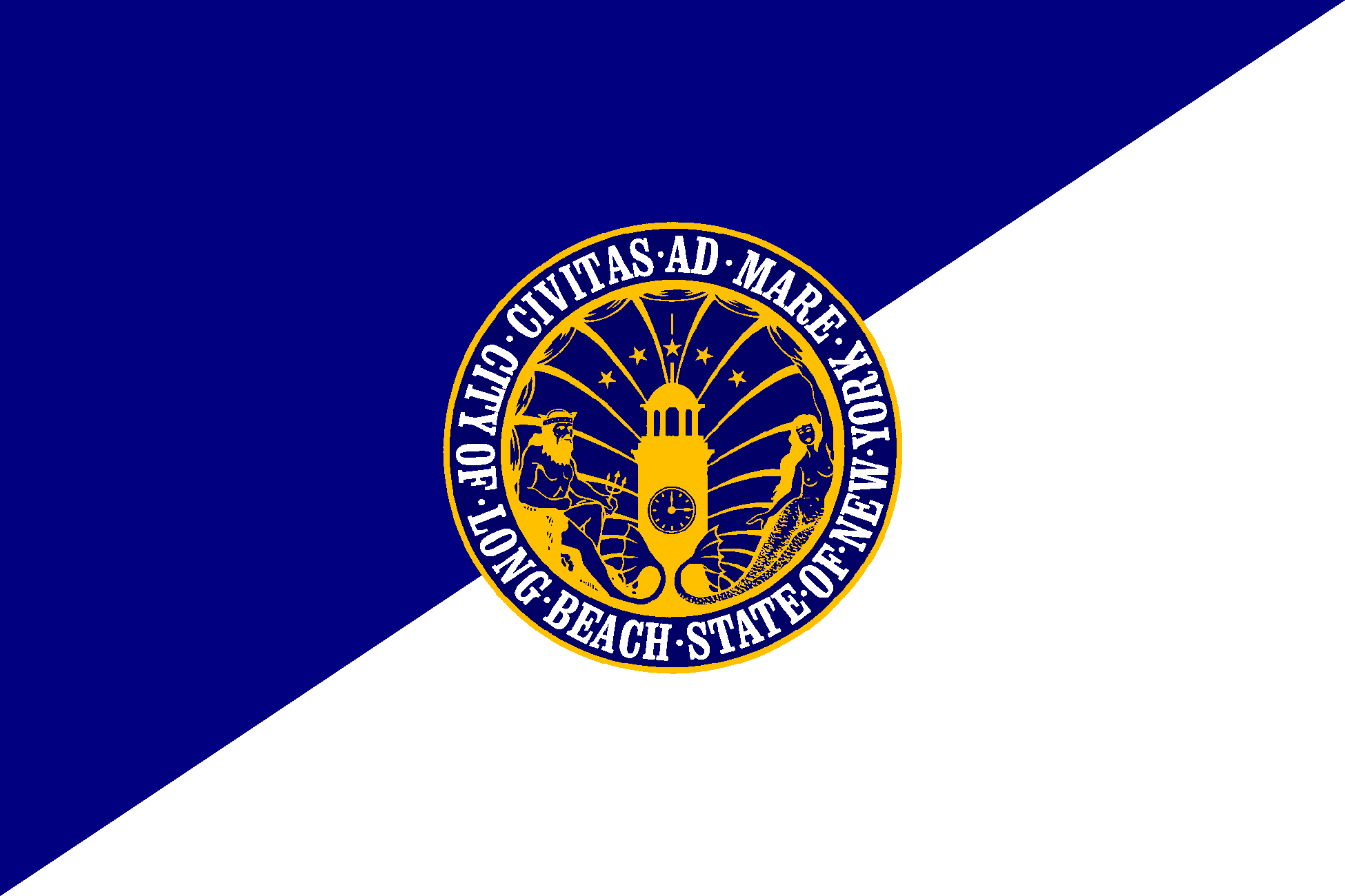 City flag of Long Beach, New York. Image created by Gordon P. Hemsley on May 14, en:2005, based on a physical version of the flag. Summary The flag as described in the City of Long Beach Code of Ordinances, § 2-2: Sec. 2-2. City flag described; use. (a) The following design is hereby adopted as the design of the official flag of the city: A flag combining the colors of royal blue, white and gold, divided into two (2) diagonal segments of equal dimensions, one of royal blue and one of white, with the royal blue segment being over the white segment and nearest the flagstaff, together with the standard design of the seal of the city in gold upon a royal blue background, with white lettering, in the center of the flag, being equally in each segment; the whole being bound on all sides, except the side nearest the flagstaff, in gold fringe. (b) The police department and the fire department are authorized to carry and display the official city flag at all their various functions, reviews, parades and receptions. (Code 1957, §§ 2-104, 2-104.1)